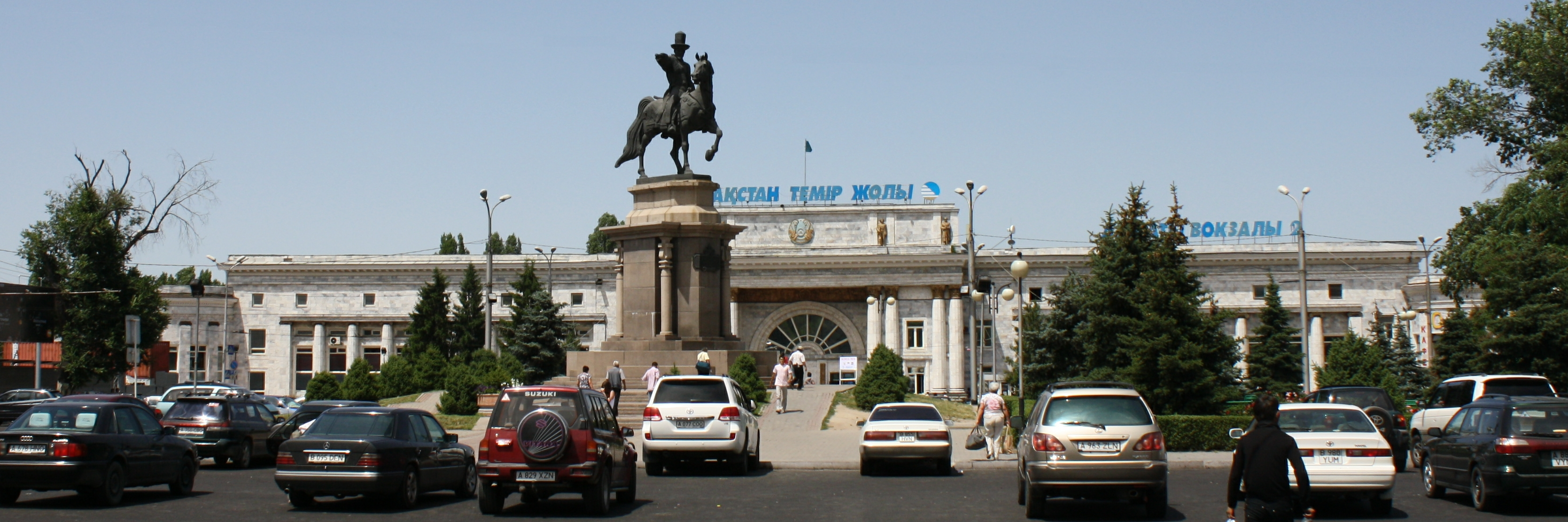 The building of Almaty-2 Railways Station, Kazakhstan, Almaty. The statue in the square is that of Amangeldy Imanov